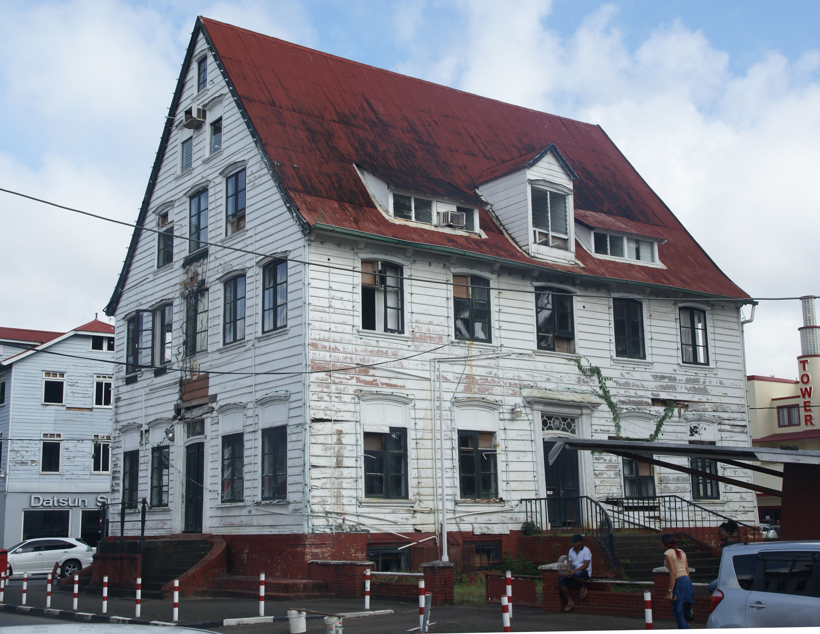 Wagenwegstraat 22, Paramaribo, Surinam. Seen from the Wagenwegstraat.